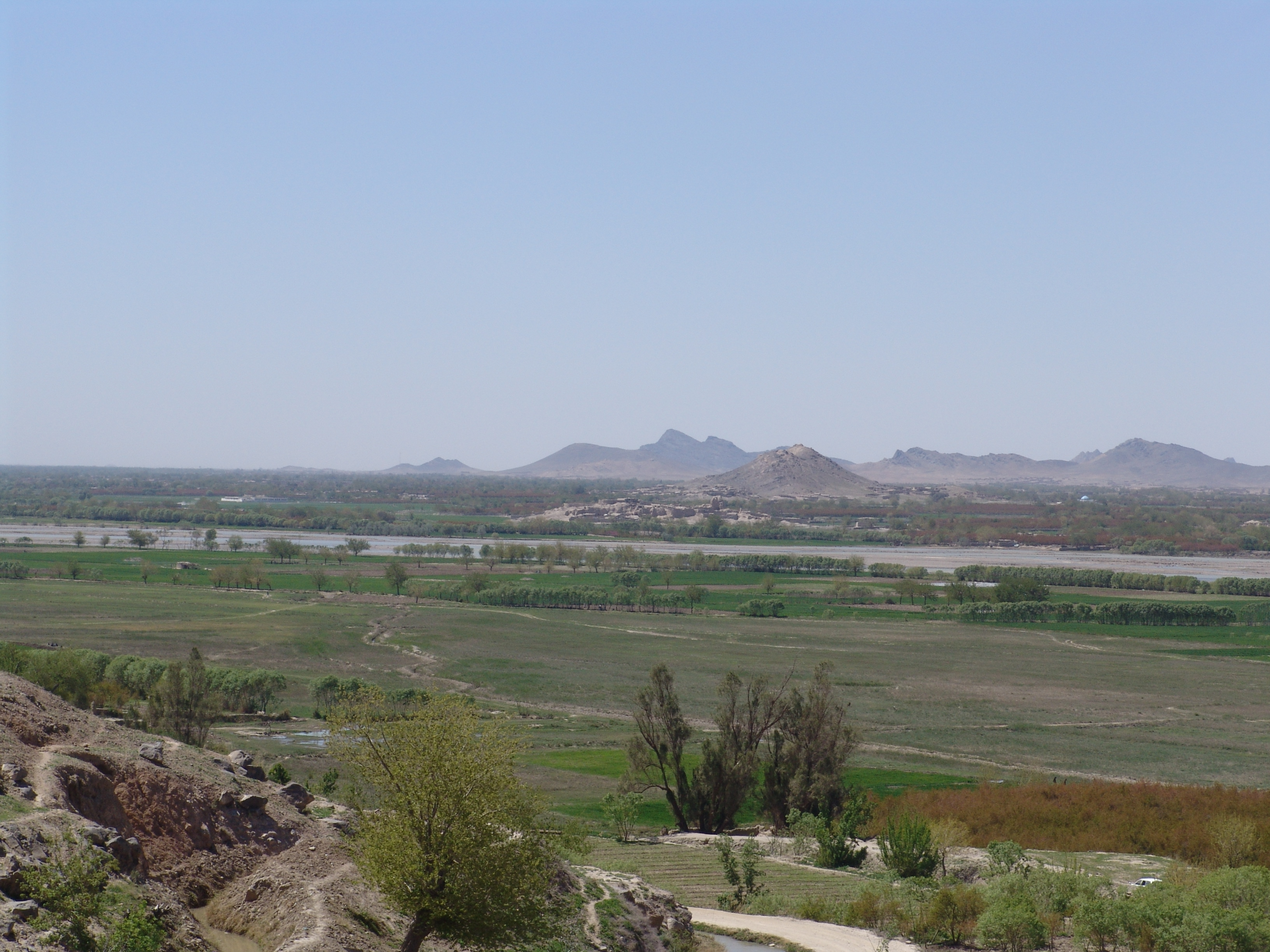 I, NisarKand, am the author of this work and give permission to everyone to copy and share this image as long as it is for a normal good cause.